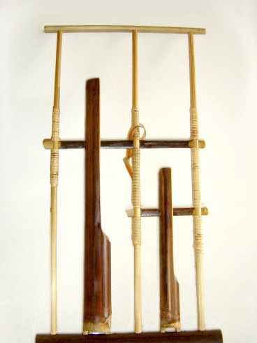 Musical instrument from Indonesia